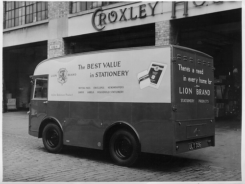 Old photo of an electricar outside Croxley House in Wharfdale Road My grandad (Henry Price) painted these as he was a signwriter. This was one of his photos. I understand that Croxley House had close connections with the Lion Brand who marketed Basildon Bond paper.